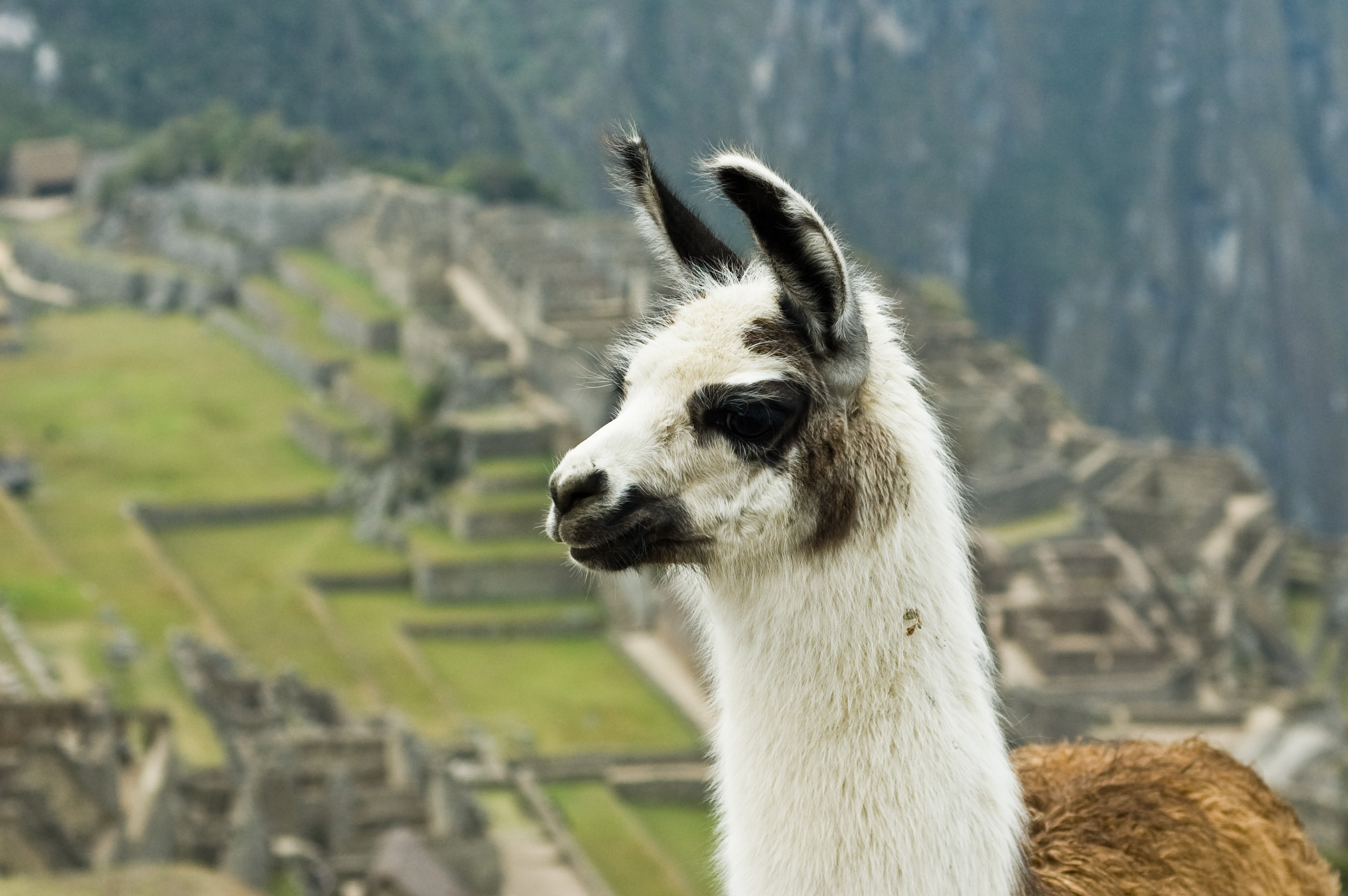 A llama (Lama Glama) in front of the Machu Picchu archeological site, Peru.